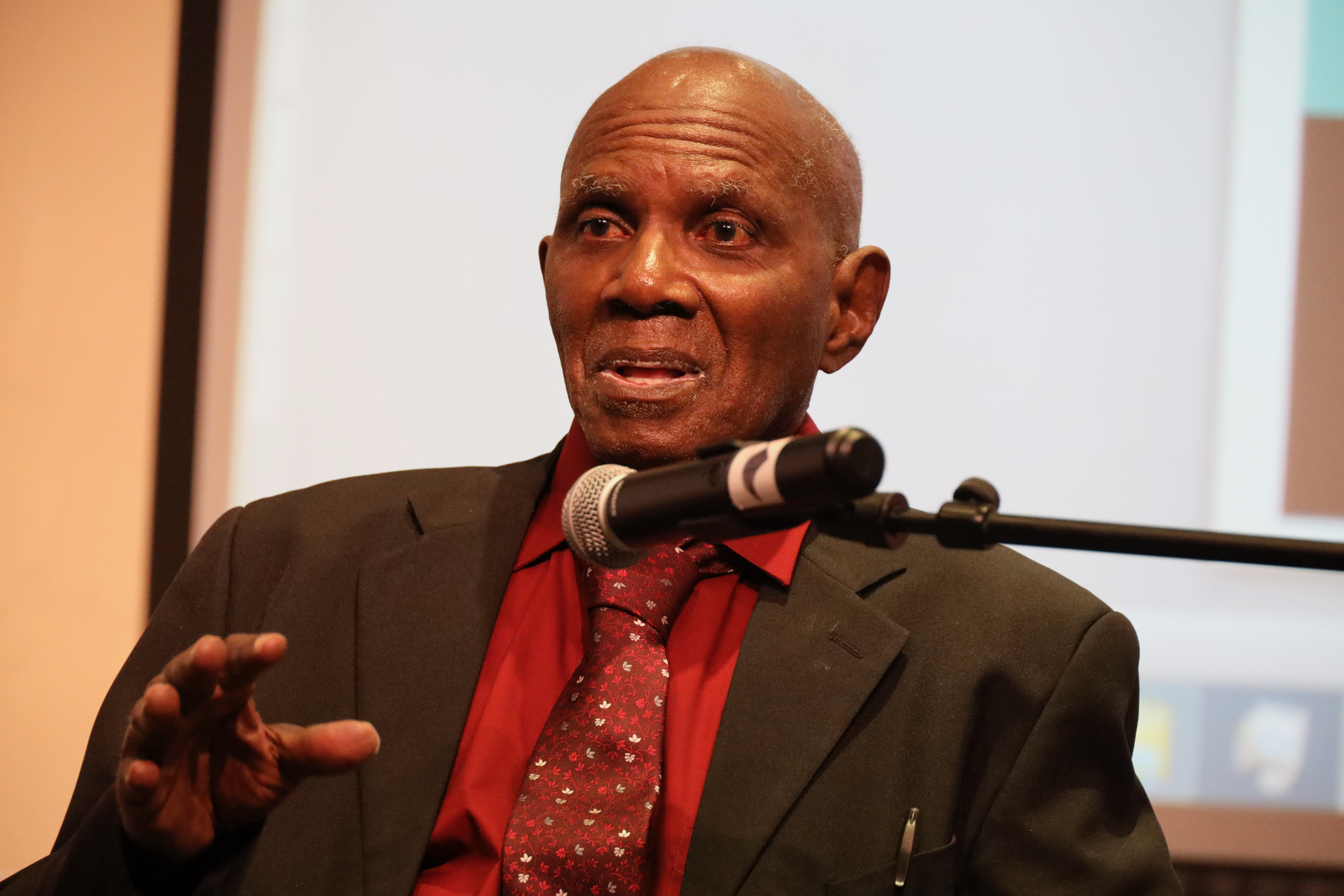 Michael Anthony during the launch event of his 2020 novel "The Sound of Marching Feet". NALIS, Port of Spain, Trinidad and Tobago.